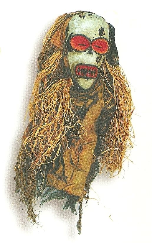 Bodi gabonese traditionnal mask from the Mitsogho ethny